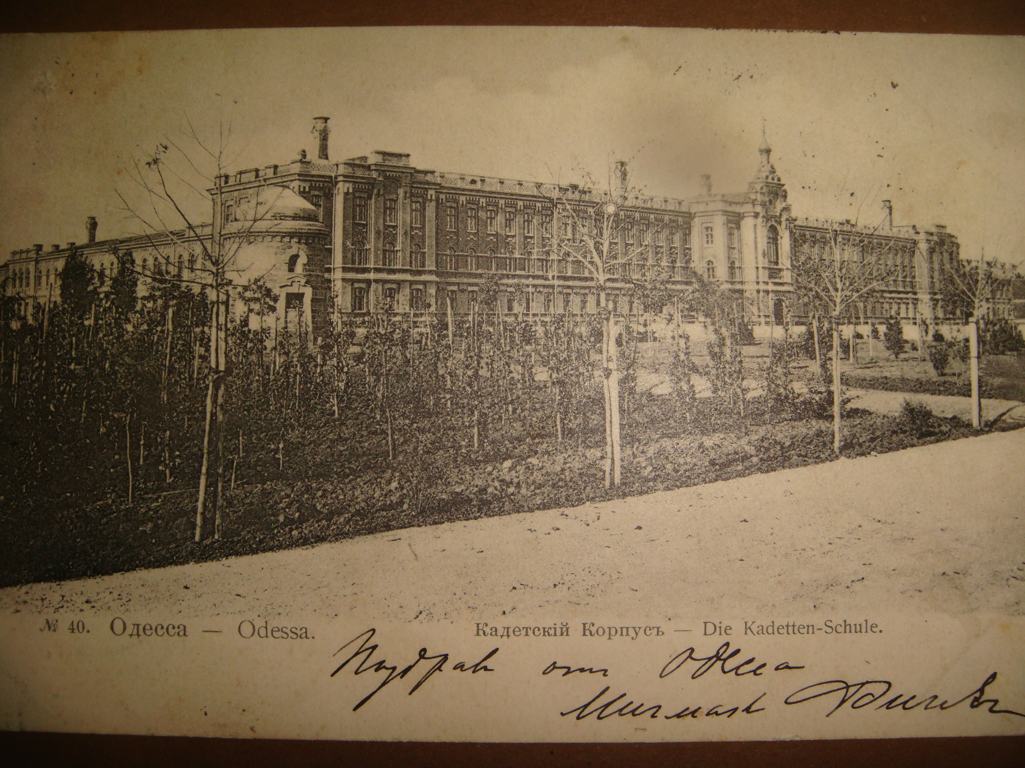 Early XX century Post Card showing Odessa Cadet School